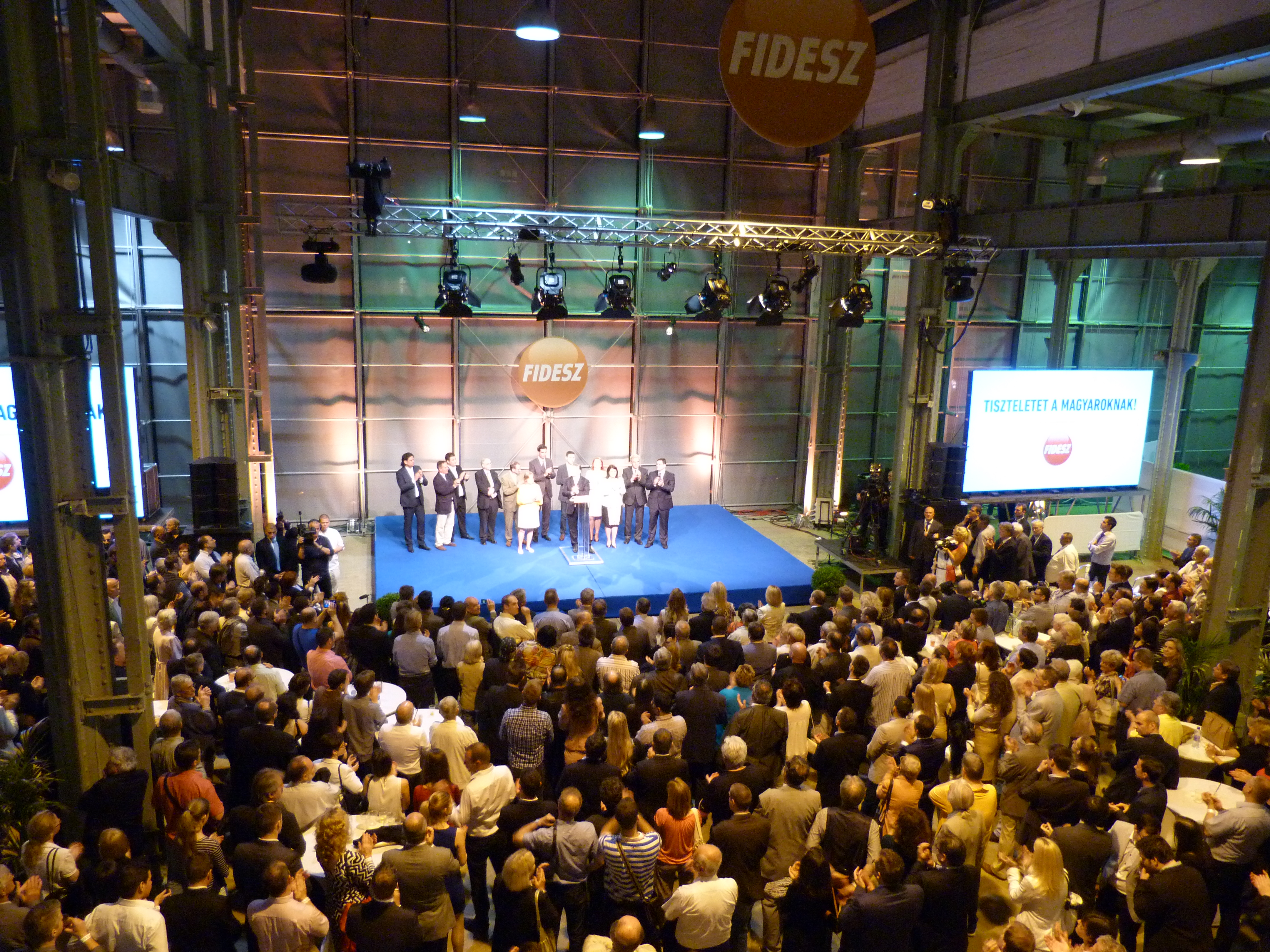 Live on the 25th of May, 2014. Hungary, Millenáris (Section D). FIDESZ Hungarian Civil Party European Parliamentary MP elections Center. Elected members (12 for FIDESZ) of the European Union (People's Party) Pelczné Gáll Ildikó, Szájer József, Tőkés László, Deutsch Tamás, Gyürk András, Gál Kinga, Schöpflin György, Erdős Norbert, Bocskor Andrea, Deli Andor, Kósa Ádám és Hölvényi György ©© Derzsi Elekes Andor, Budapest, 2014, You are authorised to use these photos and vids under Creative Commons – even for commercial, for profit purposes. Photos must be attributed to Derzsi Elekes Andor. All of the photos and vids in the Metapolisz DVD line are under Creative Commons and can be used even for commercial – for profit – purposes. Recommended Citation Derzsi Elekes Andor: Metapolisz DVD line